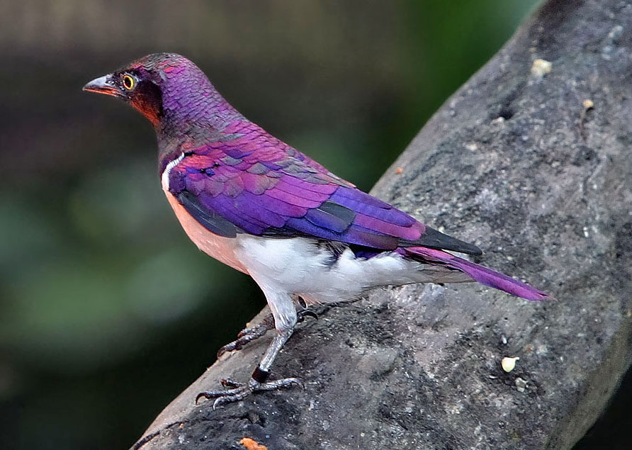 Violet-backed Starling - male